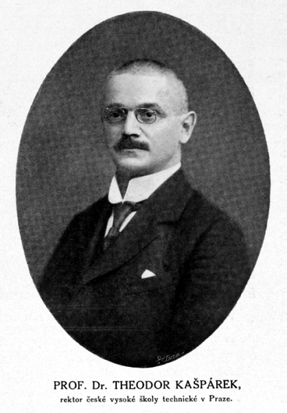 Theodor Kašpárek (1864-1930) was a Czech medical doctor and veterinarian.